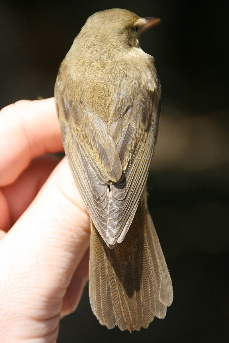 Marsh warbler (Acrocephalus palustris) has a long primary projection